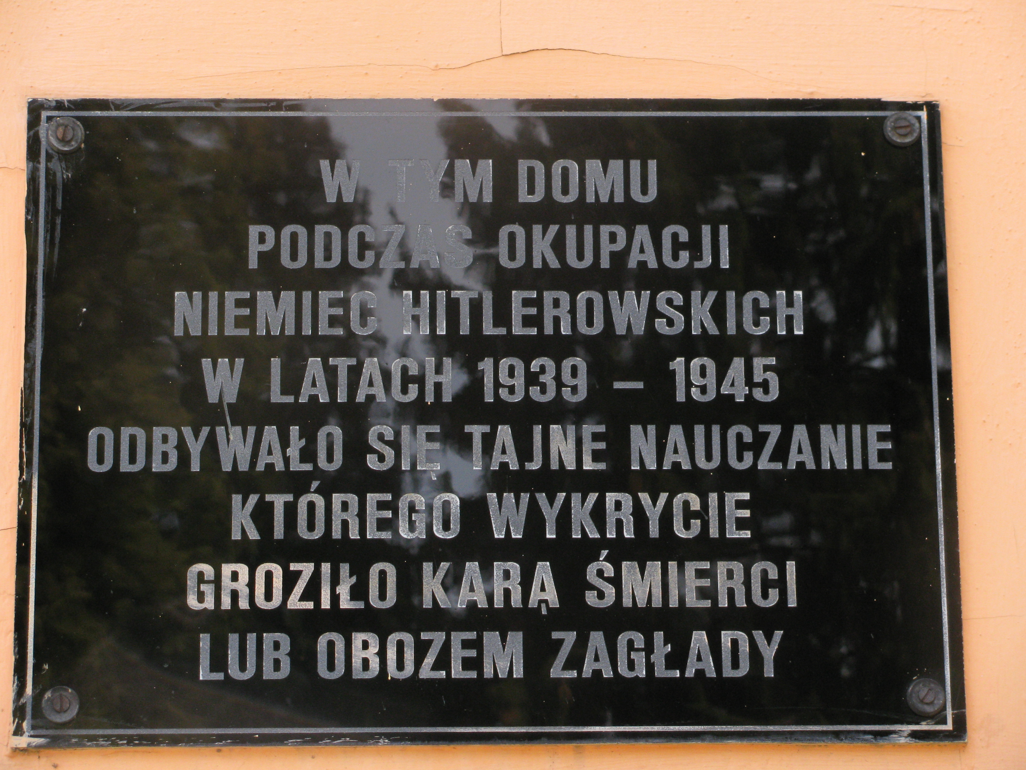 Plaque with words "In this house, during the occupation of Nazi Germany in 1939-1945 took place in secret teaching, which has been detected risked the death penalty or death camp." on house in Gorlice